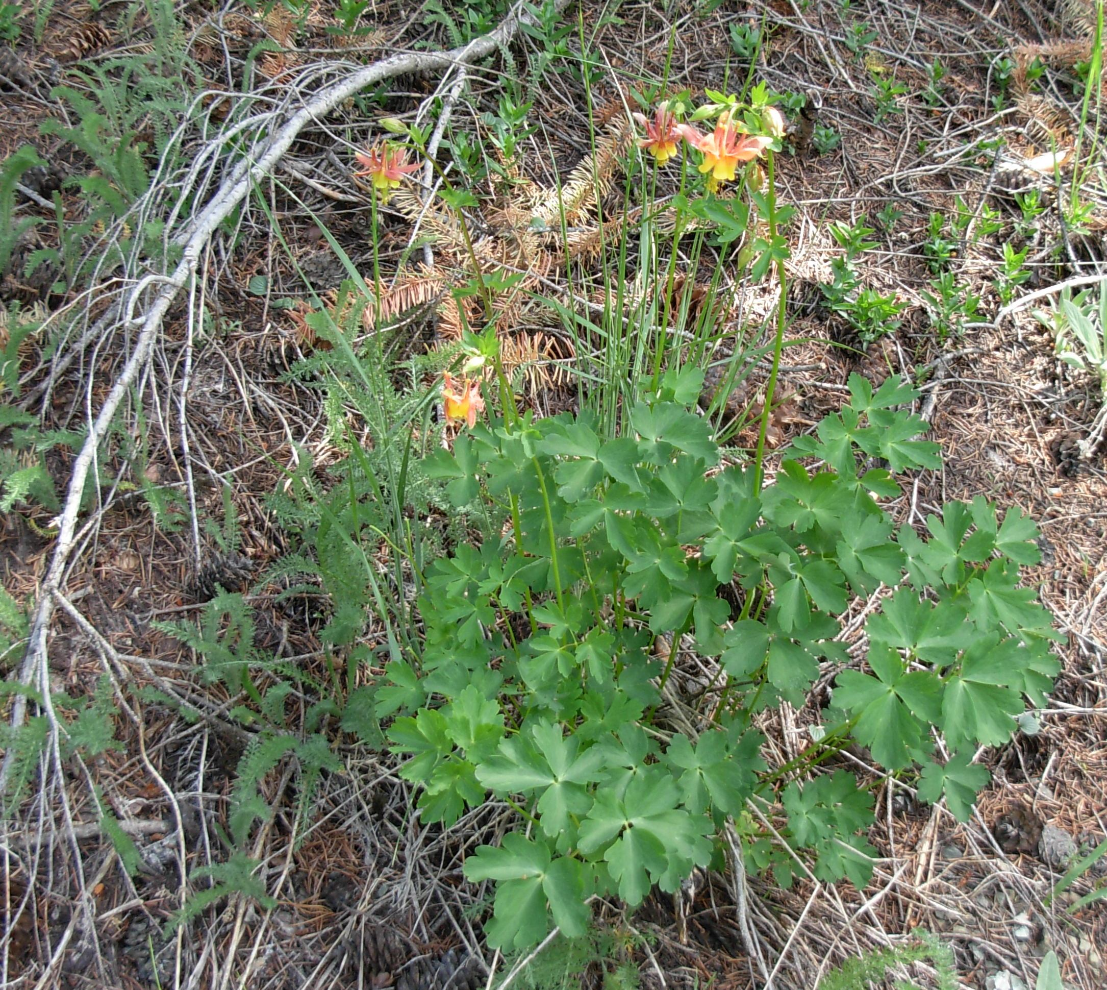 Aquilegia formosa Ranunculaceae Dicot red columbine, western columbine, Sitka columbine Stafford Creek trail 1359, Kittitas Co. Washington, USA On serpentine rock and soil ~ 1500 meters 5000 feet 23 June 2007 i062307 009